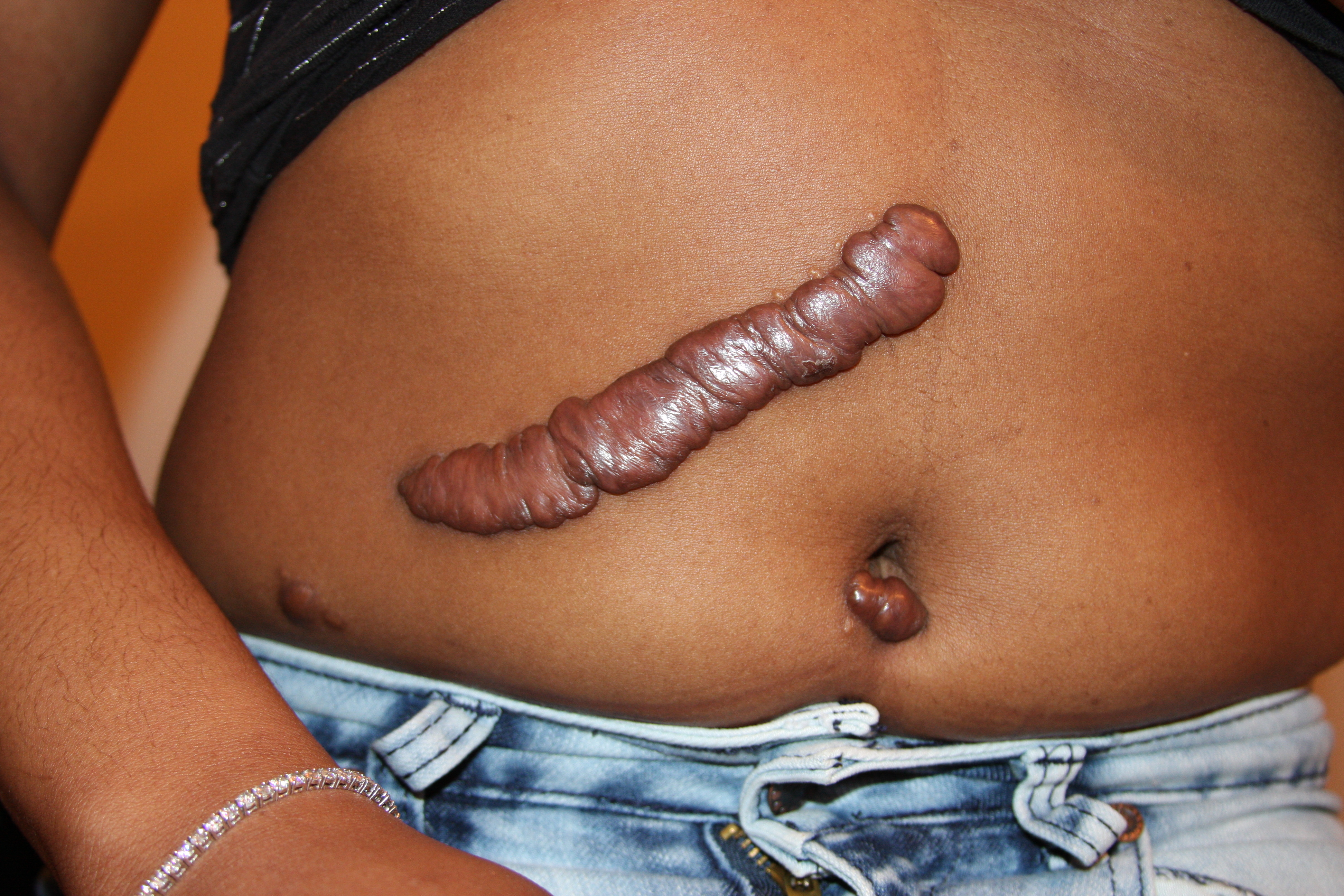 Post Surgical Keloid